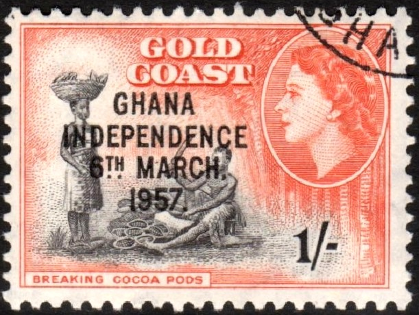 Ghana Independence overprint on Gold Coast 1s stamp 1957.